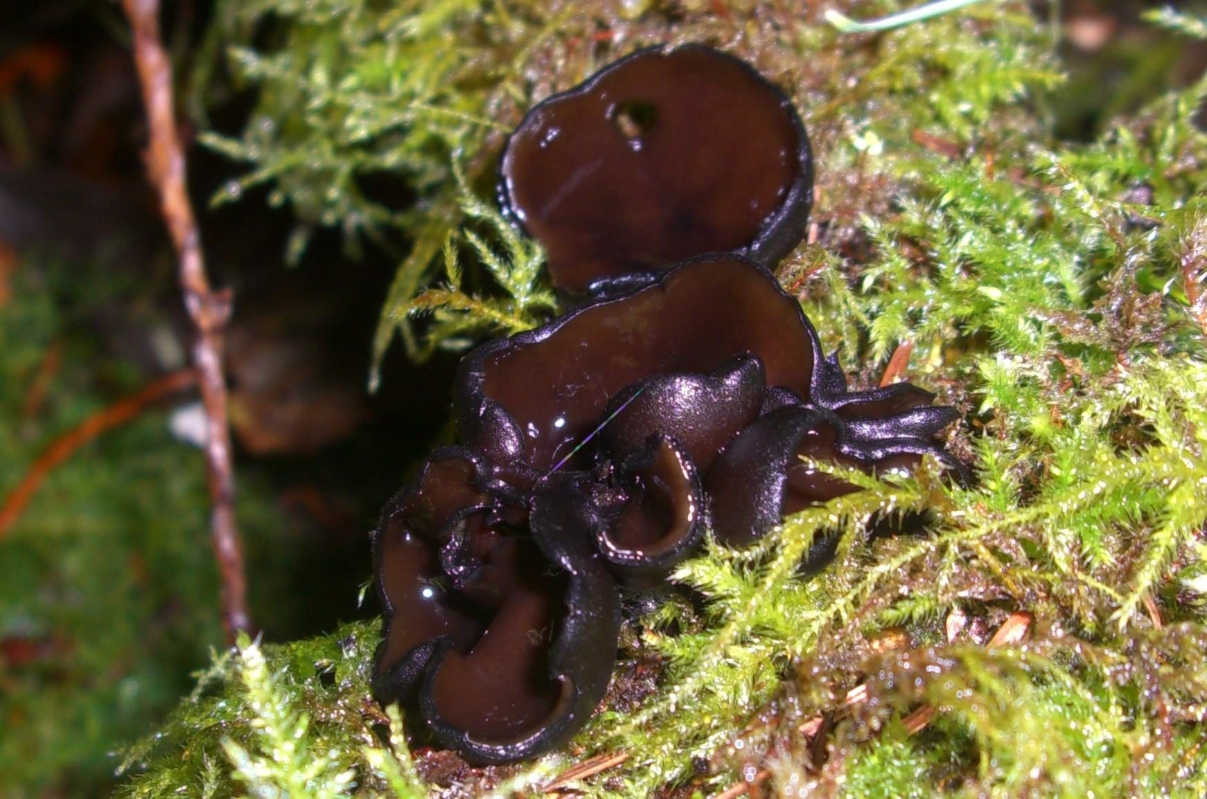 A discomycetous fungus, tentatively identified as Pseudoplectania melaena. See source page for more detailed collection notes and commentary.